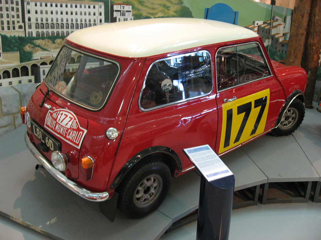 rally mini .at the British motoring heritage museum gaydon .